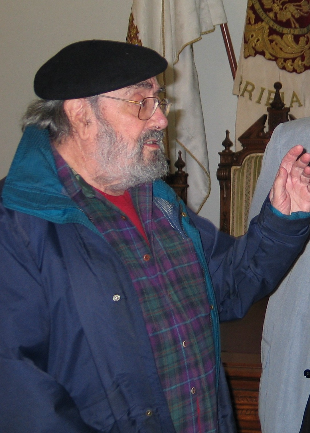 Spanish writer